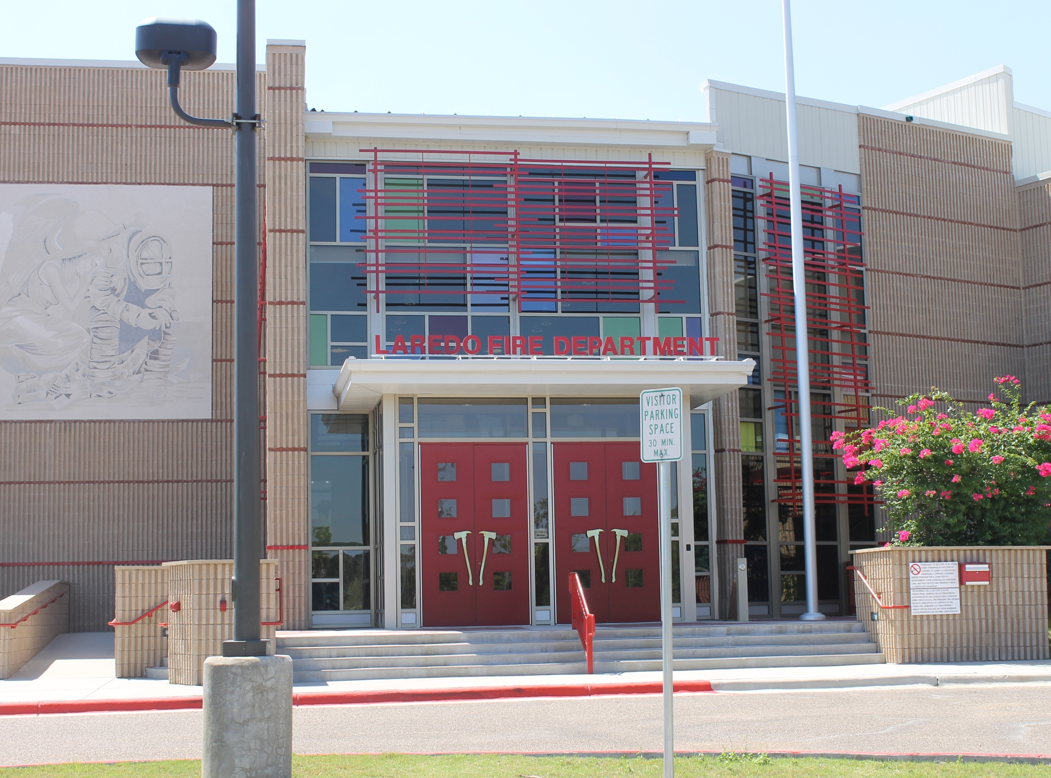 Laredo Fire Department administrative headquarters on Del Mar Blvd.